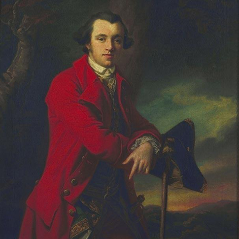 Portrait of Archibald Hamilton, 9th Duke of Hamilton (1740-1819)